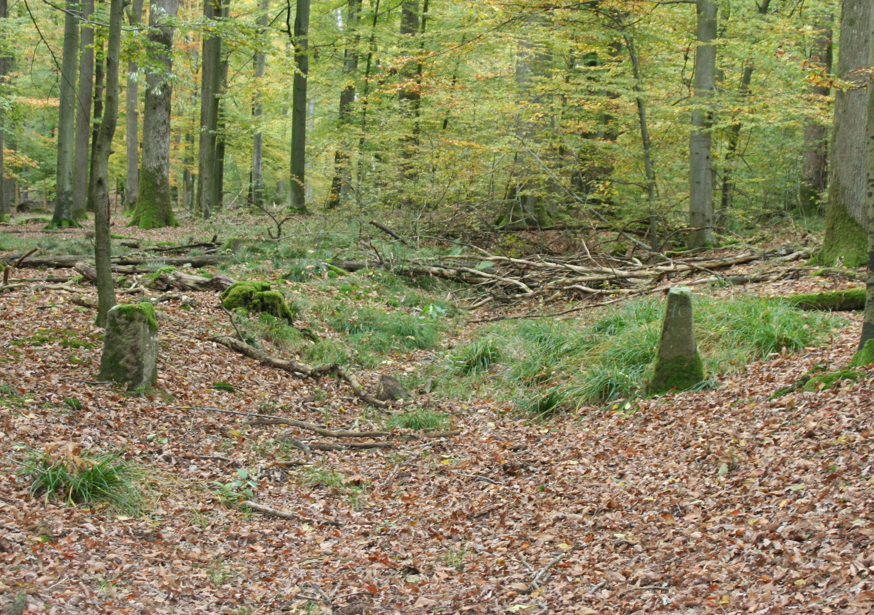 The so-called Doppelt versteinte Hällische Straße (road with two rows of boundary stones) between Weinsberg and Heilbronn